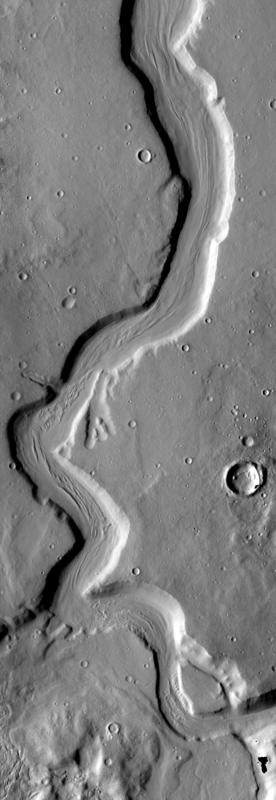 NASA/JPL/Arizona State University. Photo of Mamers Valles taken by the thermal emission imaging system of the Mars Odyssey Mission. Christensen, P.R., N.S. Gorelick, G.L. Mehall, and K.C. Murray, THEMIS Public Data Releases, Planetary Data System node, Arizona State University